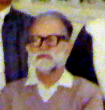 Photo of Muztar Abbasi when he was teaching Urdu at PAF Lower Topa